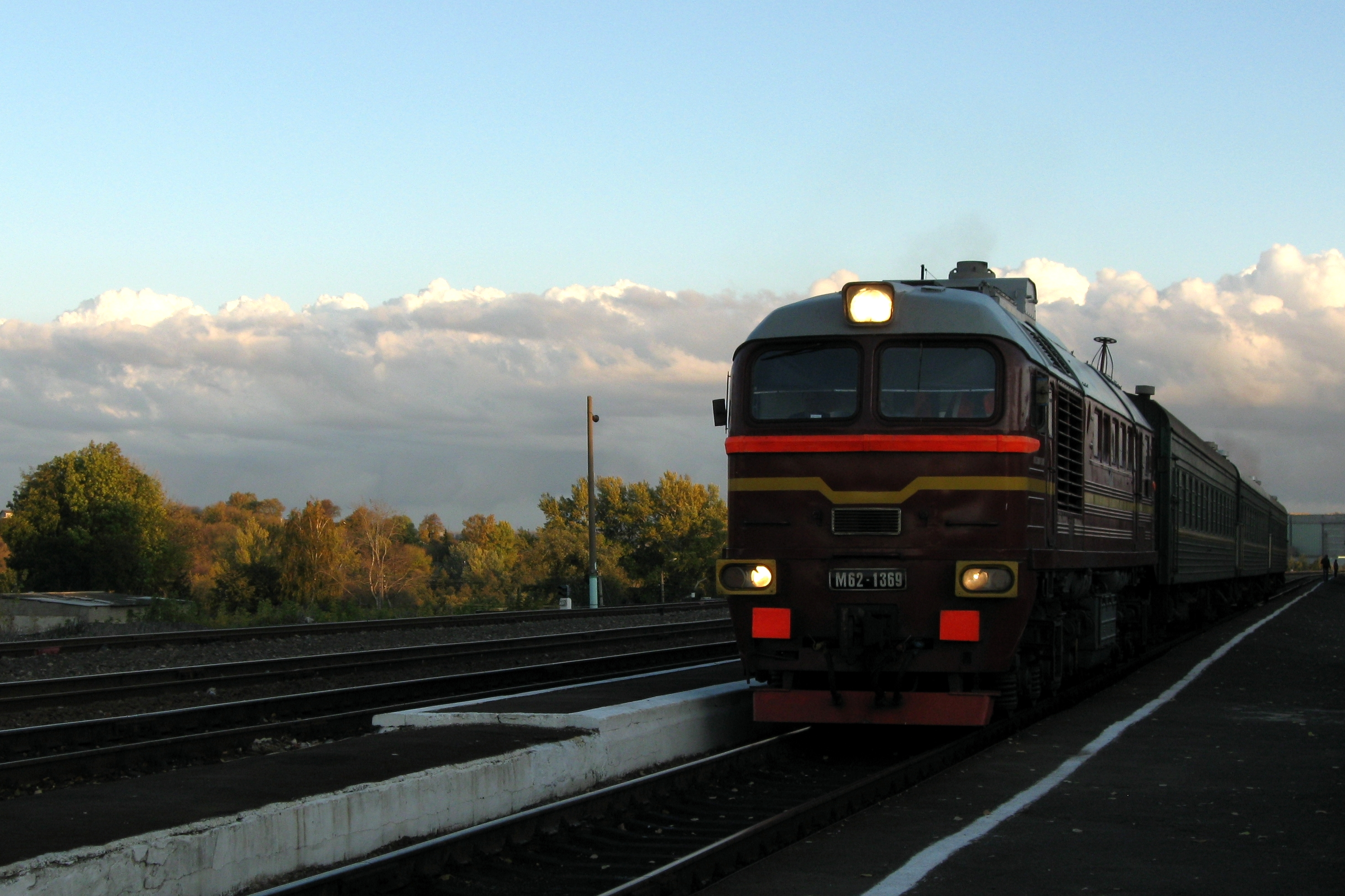 Local Train Kastornaya - Kursk at Shchigry Railway Station. Diesel Locomotive M62-1369.